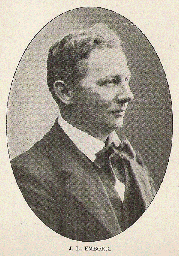 Composer, organist and educator Jens Laursøn Emborg (December 22, 1876 - 1957)